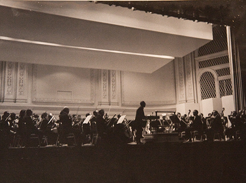 Benjamin Steinberg (1916 - 1974) conducting the premiere concert of the Symphony of the New World at Carnegie Hall, New York, on May 6, 1965.